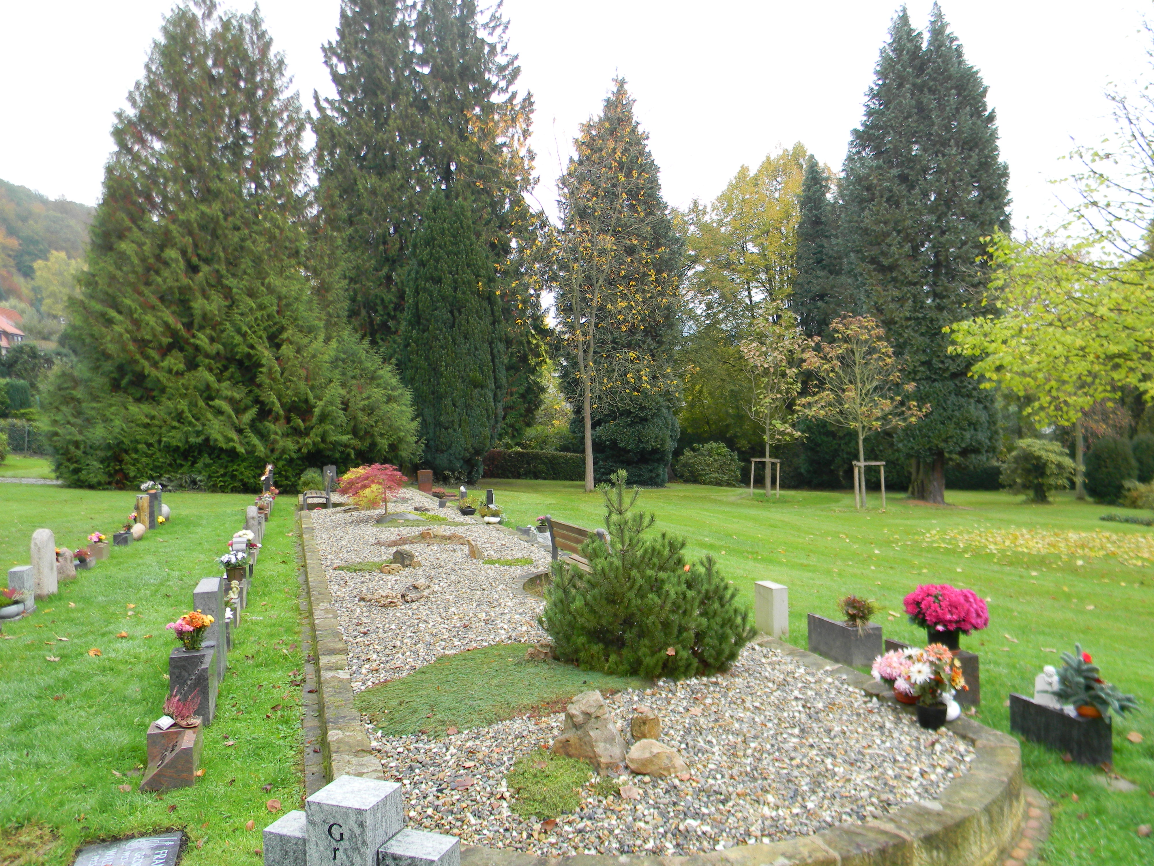 Urn lawn graves with a decorative gravel, which are based in the form of the design of a "Kare-san-sui" (Japanese rock garden).